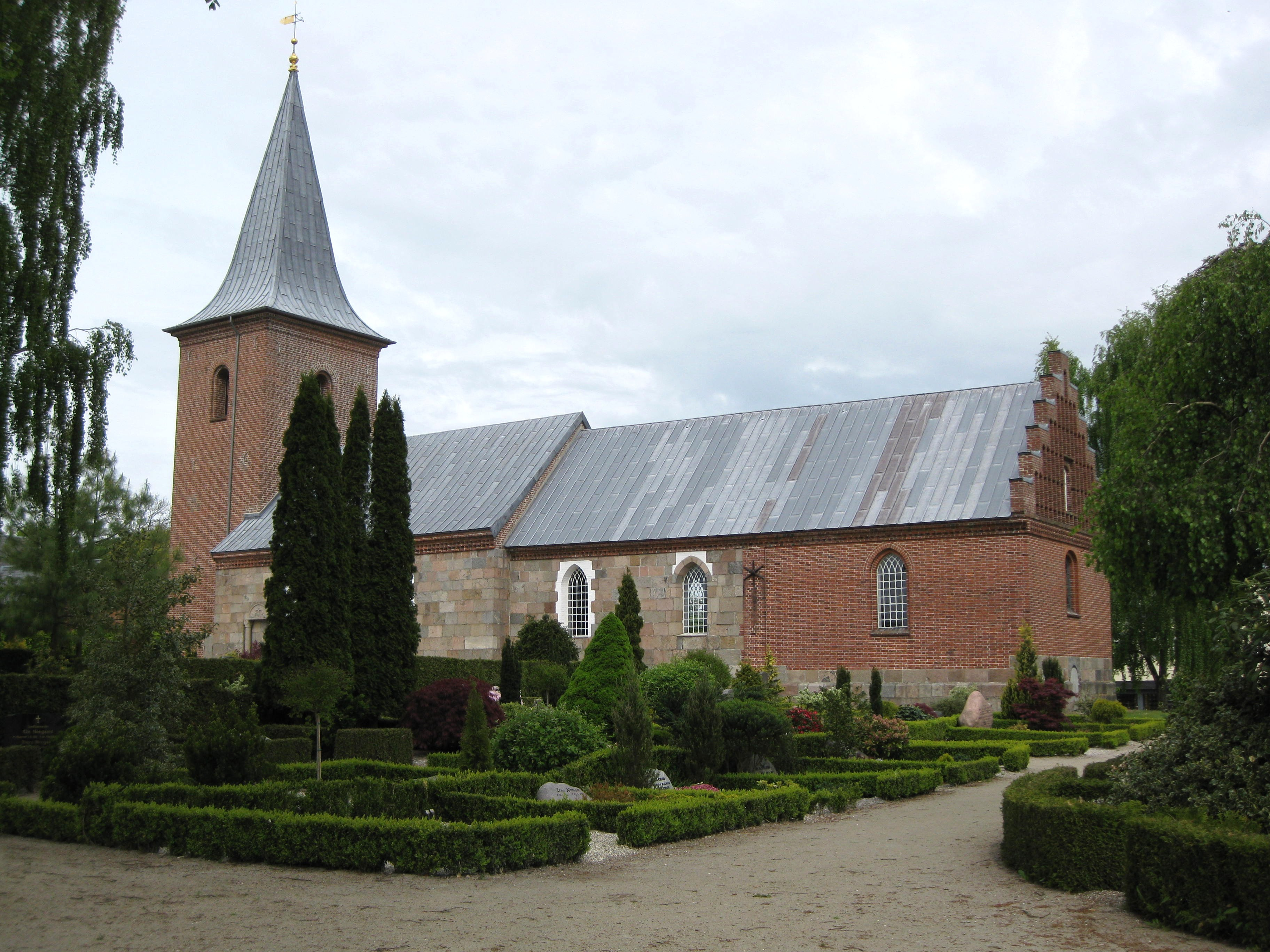 The church "Hammel Kirke" in the small town "Hammel". The town is located in East Jutland, Denmark.